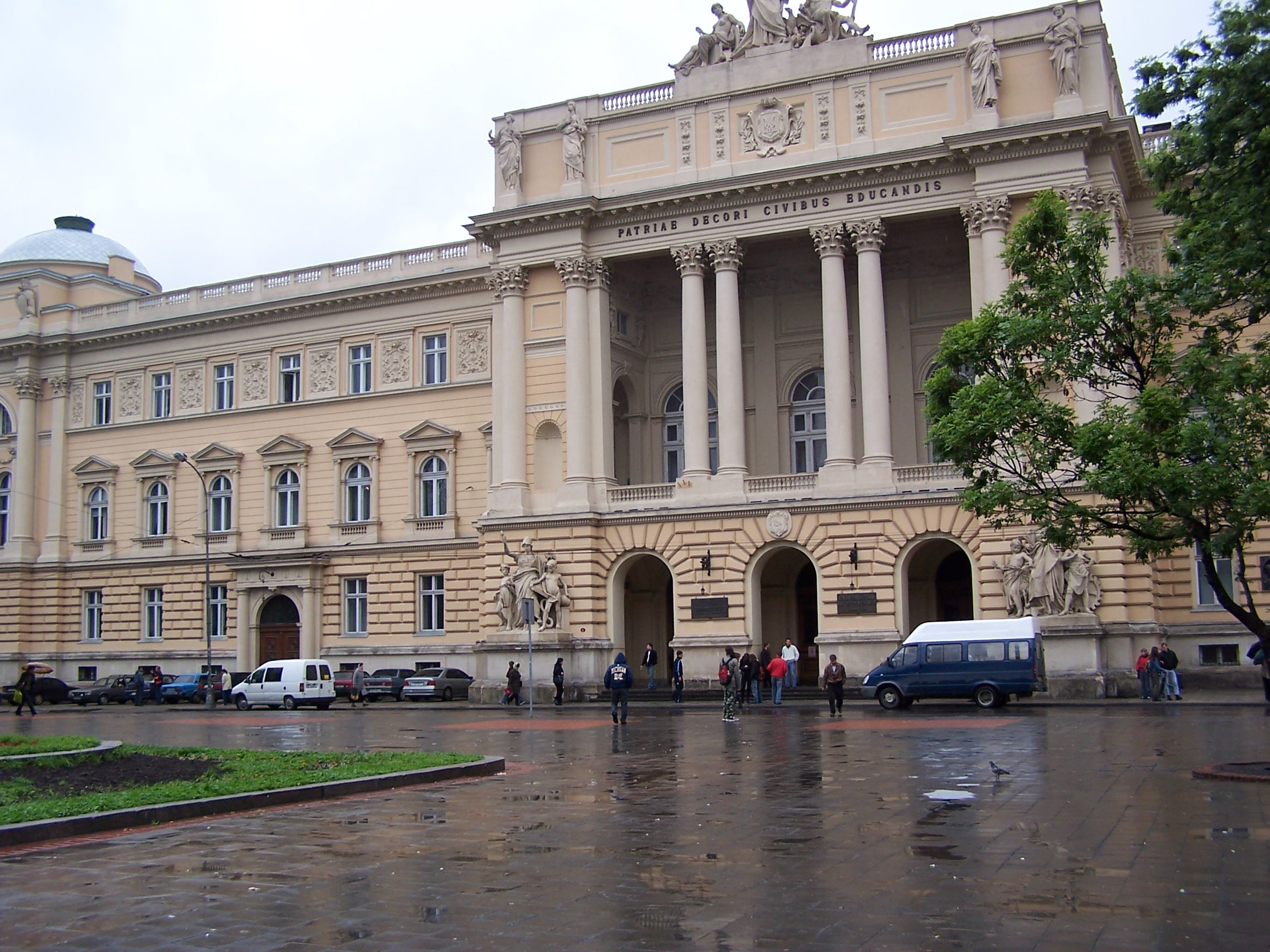 Lwów university Source: self made photo